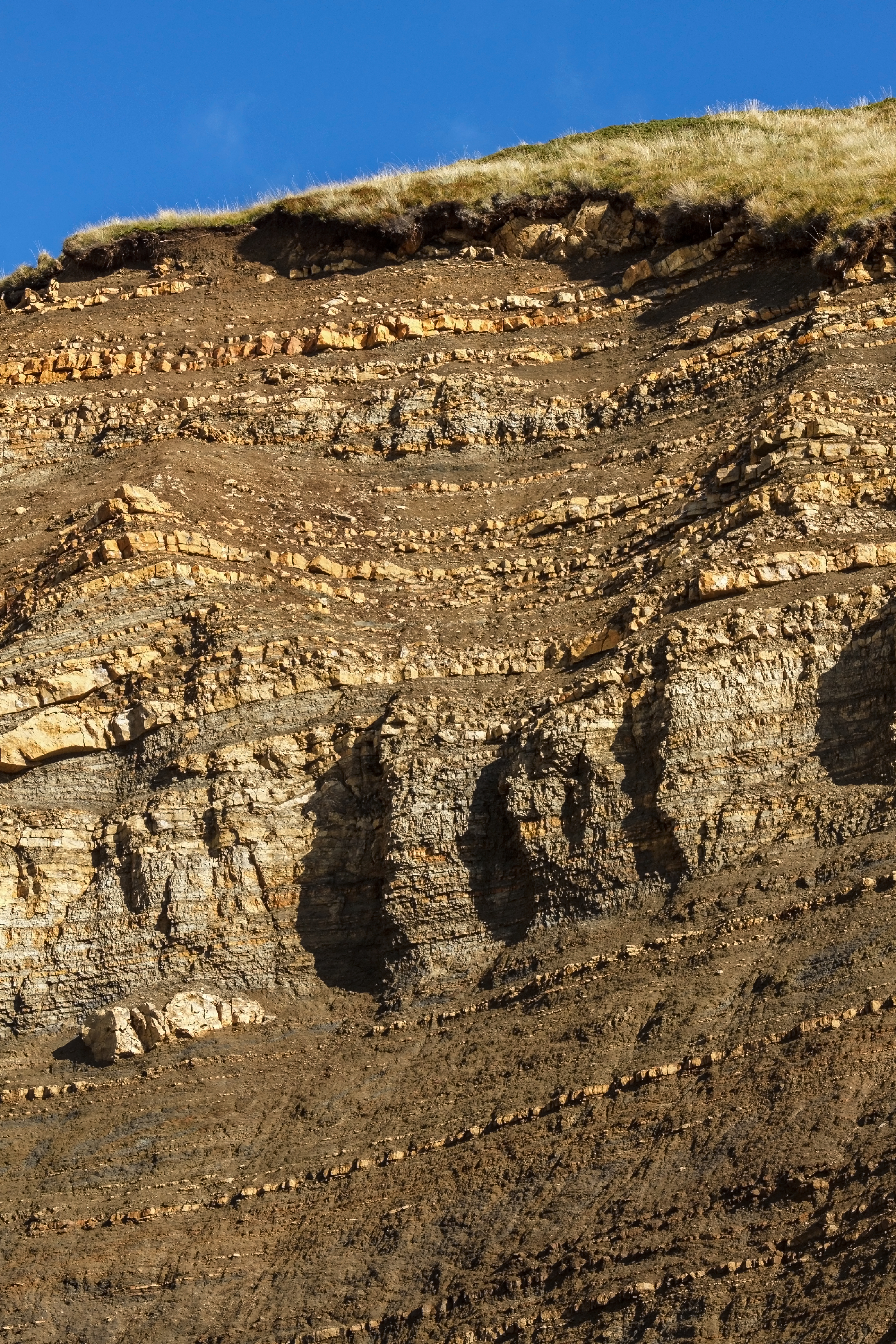 Outcrop of the San Cassiano Formation, Middle Triassic, Sella Pass, Dolomites, South Tyrol, Italy.